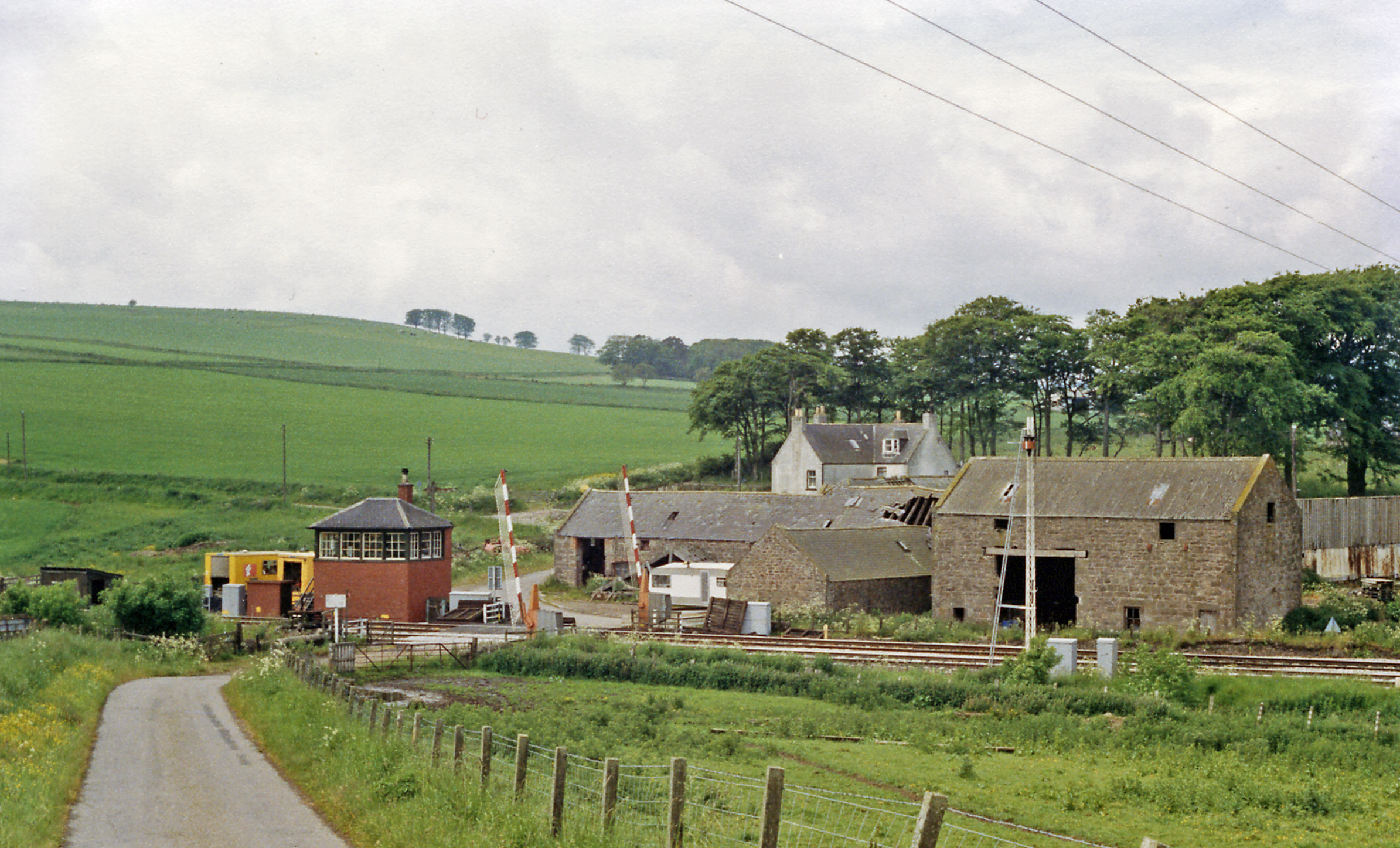 Carmont station (site), 1988. View SW, across the Dundee etc. - Montrose - Aberdeen main line, formerly ex-Caledonian (CR) Perth - Aberdeen route over which ex-NBR (later LNER) trains had running powers from Kinnaber Junction (north of Montrose). The station was closed to passengers from 11/6/56, goods from 23/5/64 and the ex-CR main line between Stanley Junction (near Perth) and Kinnaber Junction had been closed from 4/9/67.